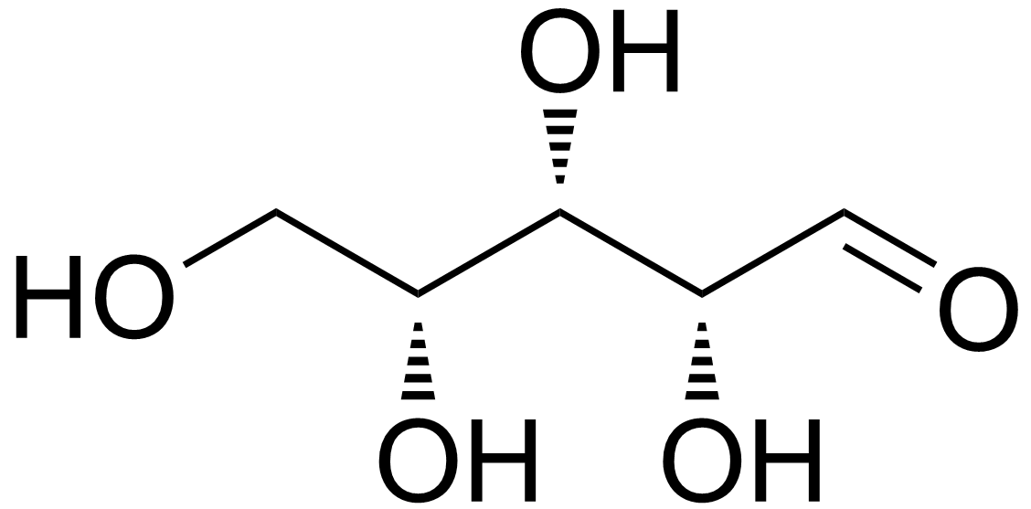 xylose in its linear form